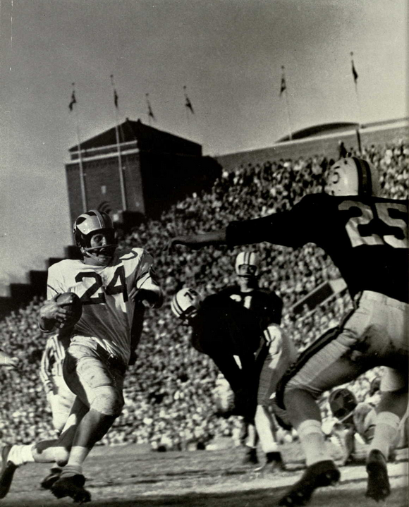 Photograph of Jim Van Pelt in Michigan's 1957 football game against Northwestern This work is in the public domain because it was published in the United States between 1925 and 1963 and although there may or may not have been a copyright notice, the copyright was not renewed. Unless its author has been dead for the required period, it is copyrighted in the countries or areas that do not apply the rule of the shorter term for US works, such as Canada (50 pma), Mainland China (50 pma, not Hong Kong or Macao), Germany (70 pma), Mexico (100 pma), Switzerland (70 pma), and other countries with individual treaties. See Commons:Hirtle chart for further explanation. This work is in the public domain in the United States because it was published in the United States between 1925 and 1977, inclusive, without a copyright notice. See Commons:Hirtle chart for further explanation. Note that it may still be copyrighted in jurisdictions that do not apply the rule of the shorter term for US works (depending on the date of the author's death), such as Canada (50 p.m.a.), Mainland China (50 p.m.a., not Hong Kong or Macao), Germany (70 p.m.a.), Mexico (100 p.m.a.), Switzerland (70 p.m.a.), and other countries with individual treaties.